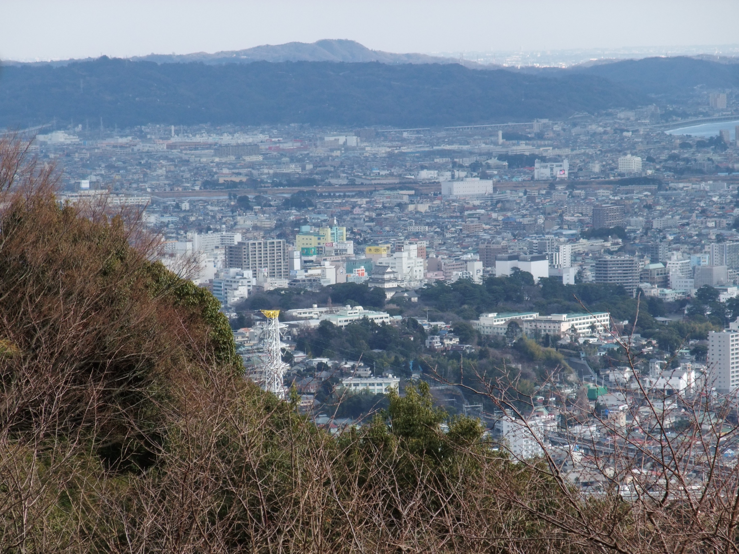 Odawara Castle(center) and Odawara City, view from the site of Ishigakiyama Castle